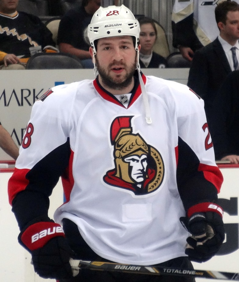 Ottawa Senators forward Matt Kassian during game two of their second round series against the Pittsburgh Penguins, May 17, 2013 at Consol Energy Center in Pittsburgh, PA.